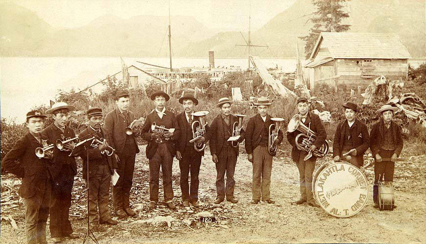 Subjects (LCTGM): Musicians--Alaska--Metlakatla; Buildings--Alaska--Metlakatla Subjects (LCSH): Brass bands--Alaska--Metlakatla; Indians of North America--Musicians